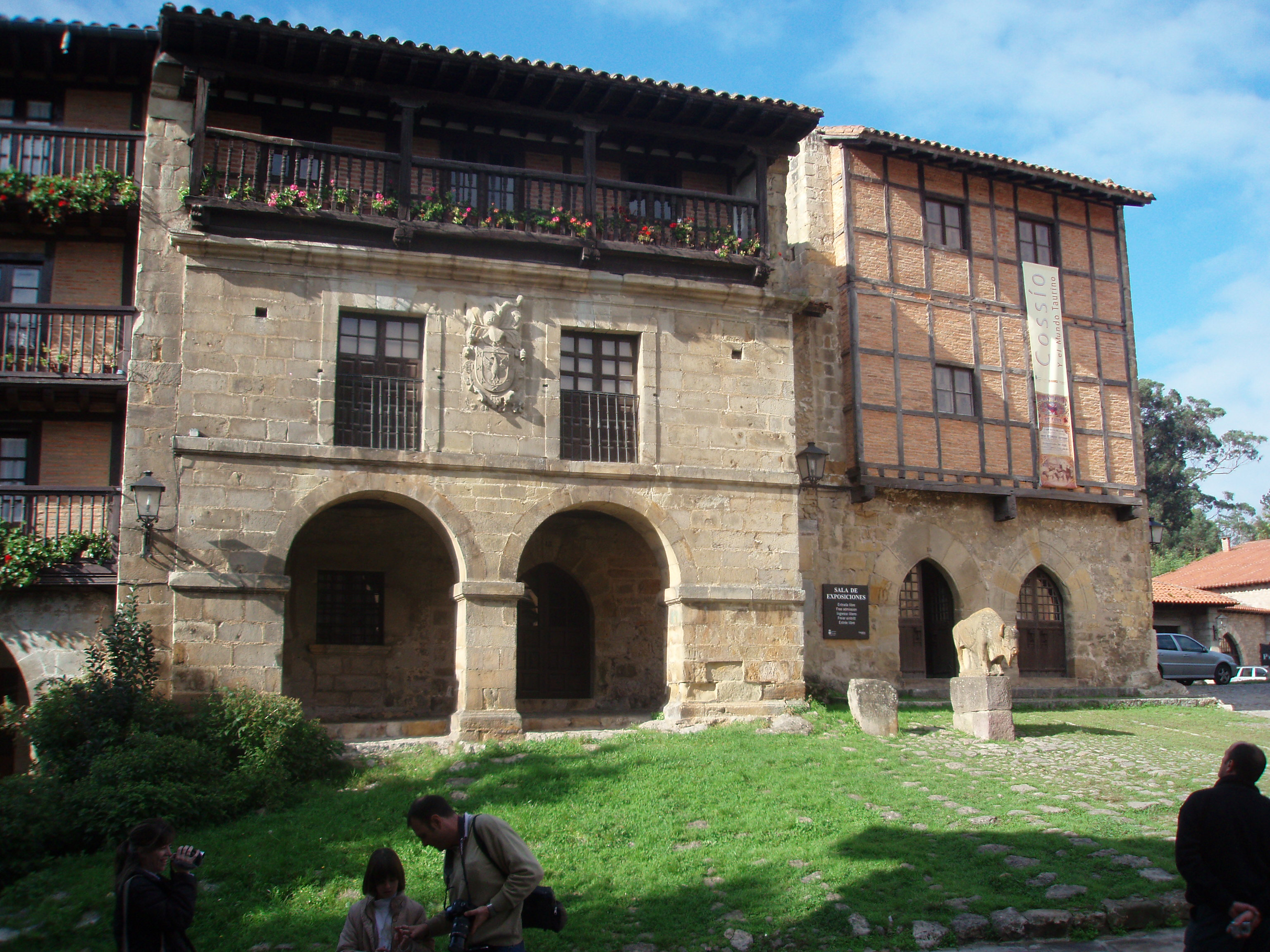 Casa del Águila (left) and Casa de la Parra (right)